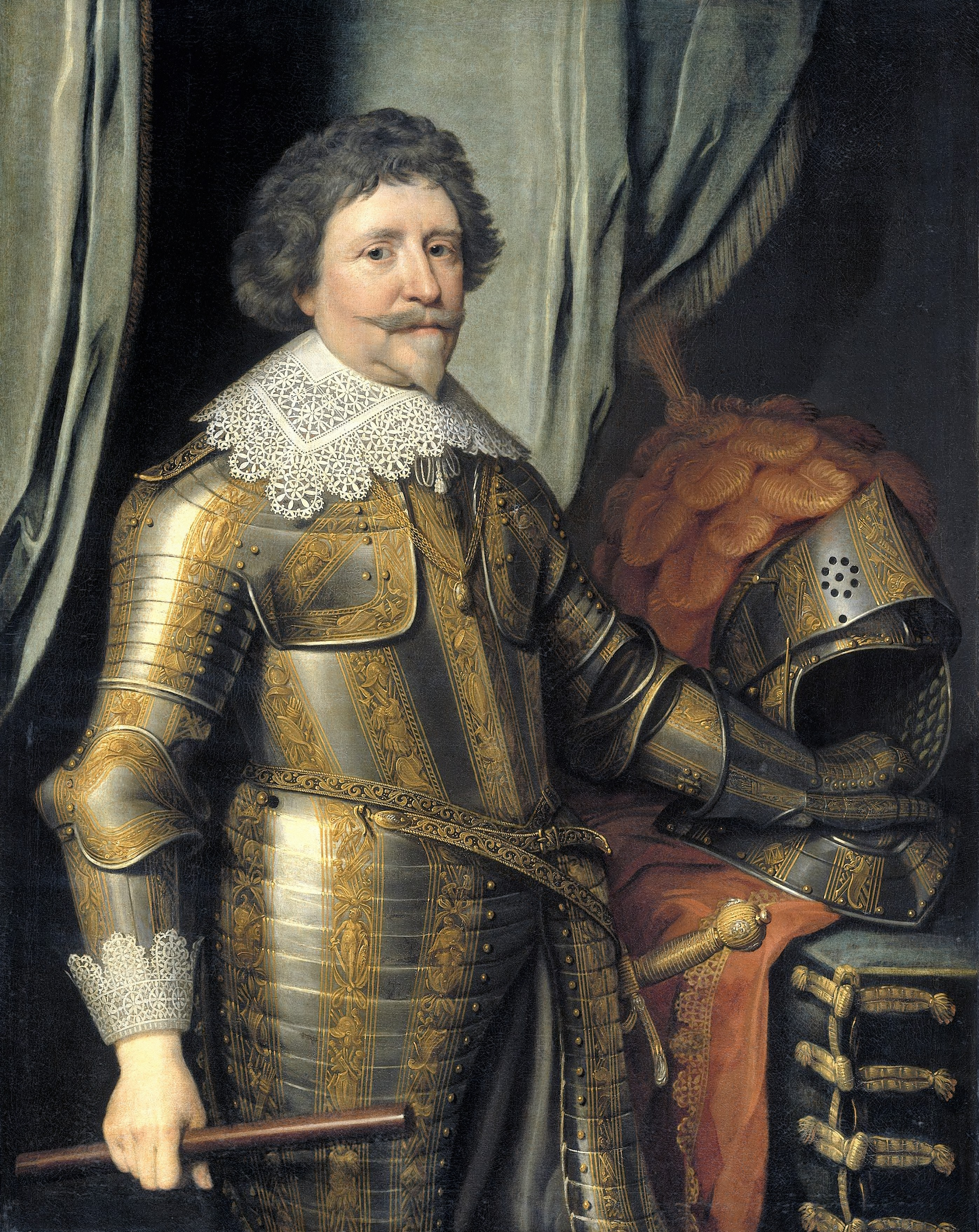 Part of a series of four portraits of Princes of Orange at half-length originating from the Admiralty of Rotterdam (for the other three see File:Workshop of Michiel Jansz. van Mierevelt 005.jpg, File:School of Michiel Jansz. van Mierevelt 001.jpg and File:Workshop of Gerard van Honthorst 001.jpg)